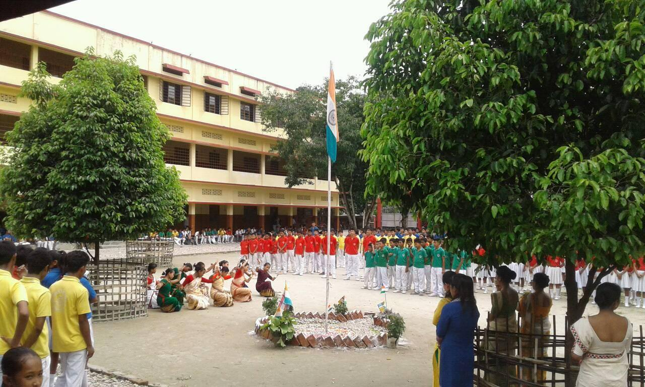 St pauls